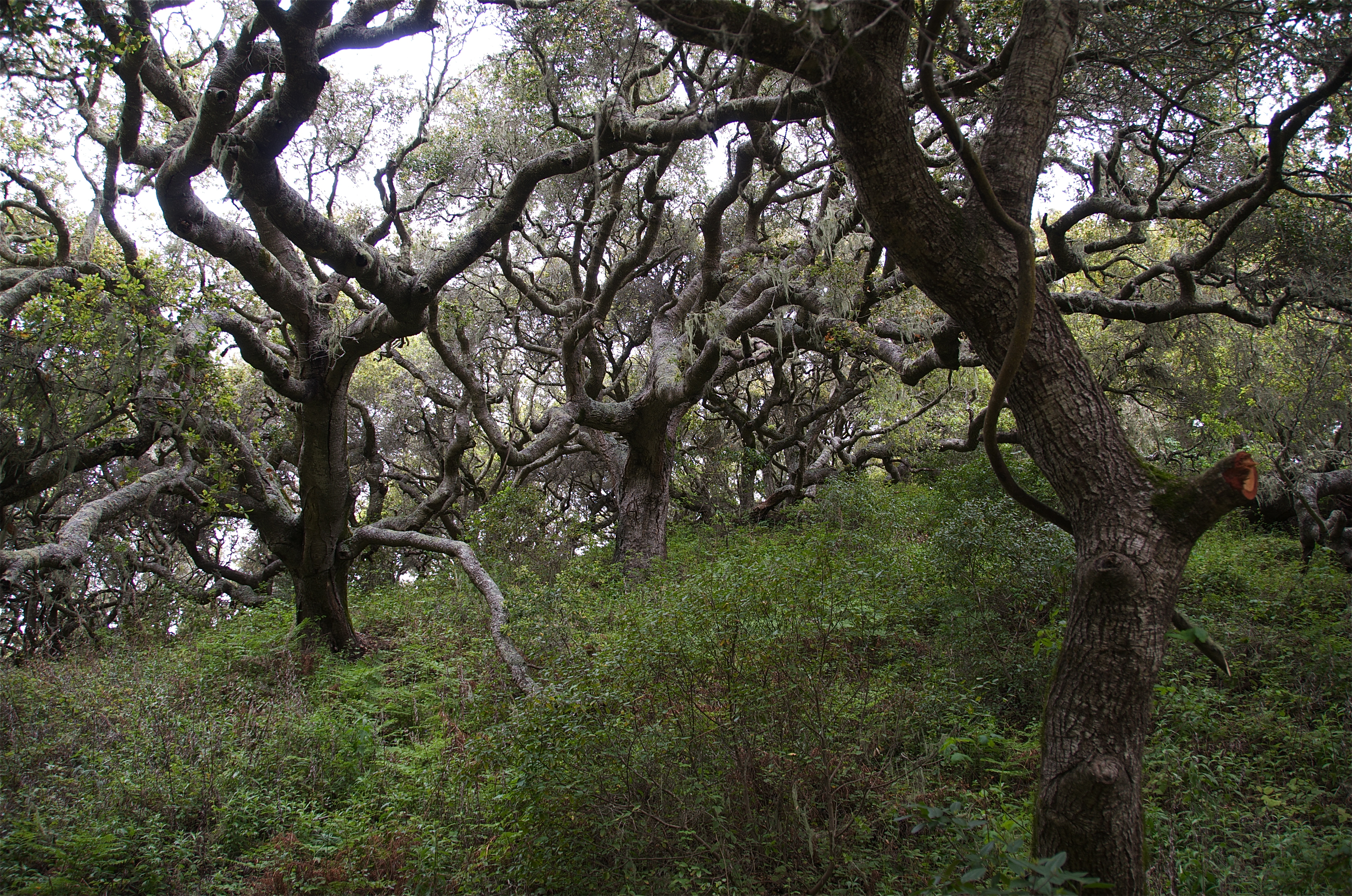 Quercus agrifolia — Coast Live Oaks. A California oak woodland habitat of the California chaparral and woodlands ecoregion. Located in San Luis Obispo County, central California.